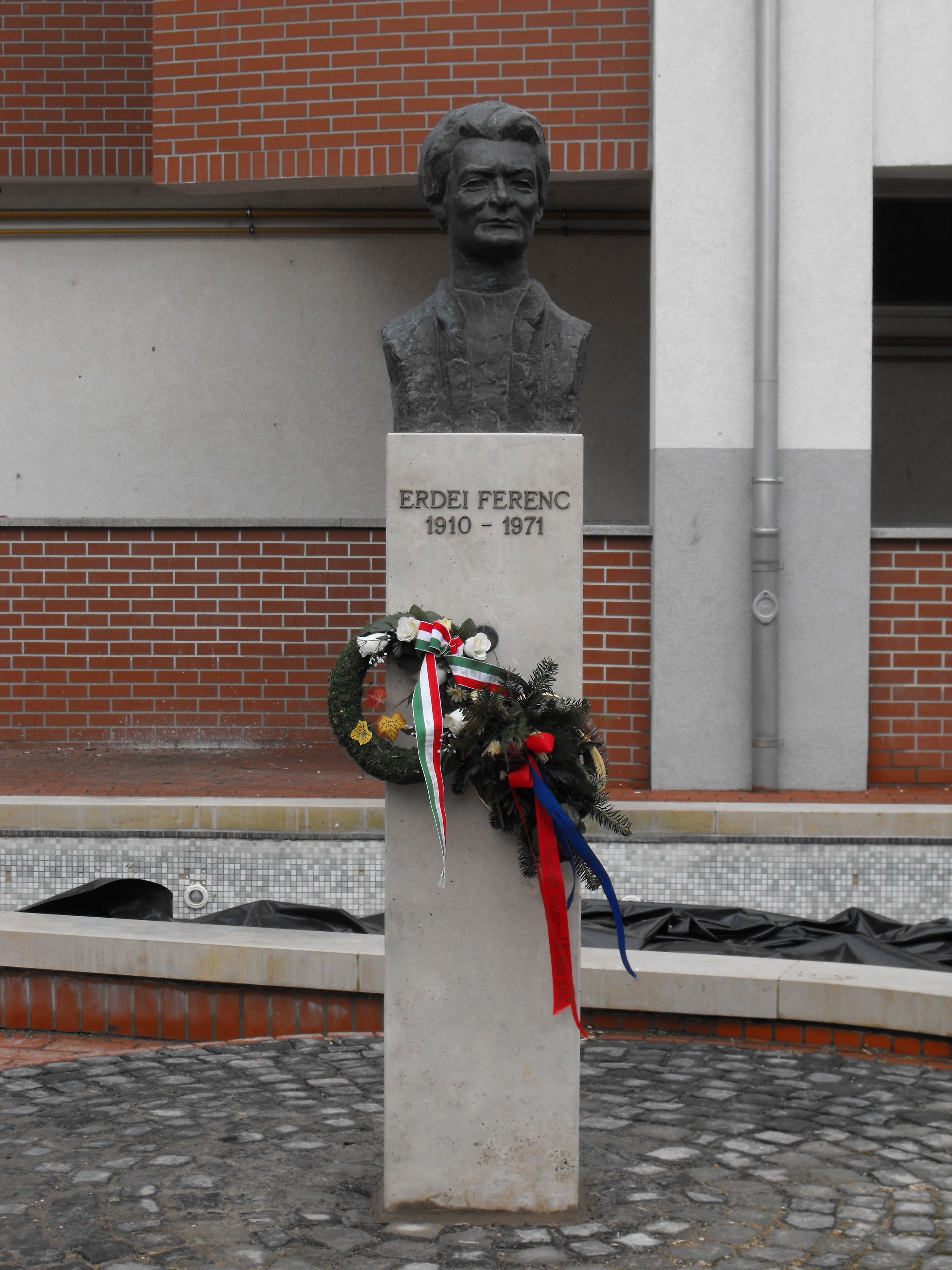 Statue of Ferenc Erdei, Hungarian sociologist, writer and politician in Posta utca (~Post street), Makó, Hungary.